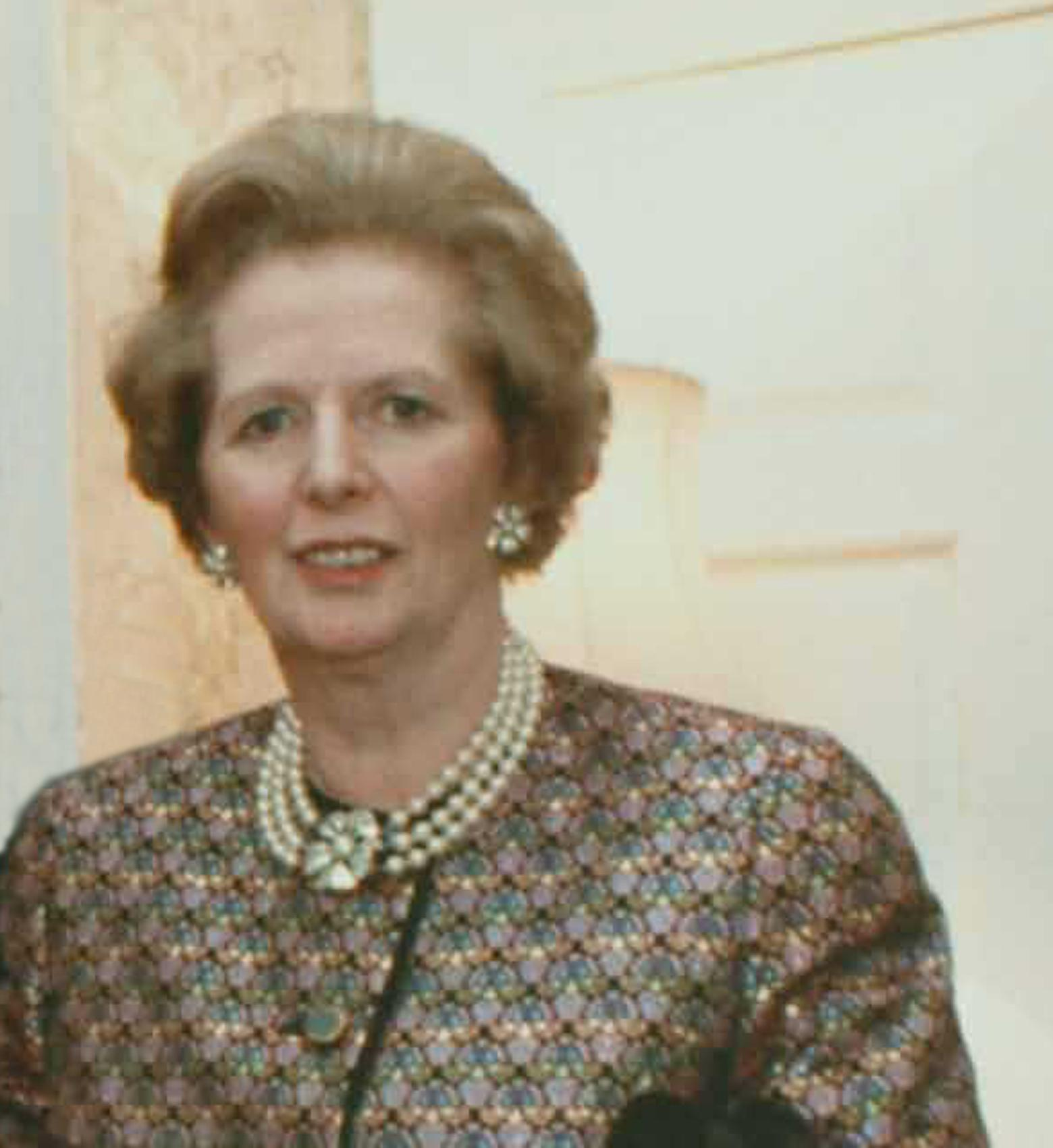 Margaret Thatcher photo cropped from this Image.Description of original image:Margaret Thatcher and Nancy Reagan at 10 Downing Street. President Ronald Reagan is behind, in between the two, and Mr. Denis Thatcher is to Mr. Reagan's left.